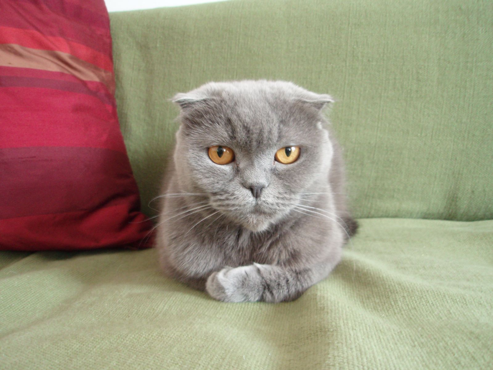 Scottish fold Aurora